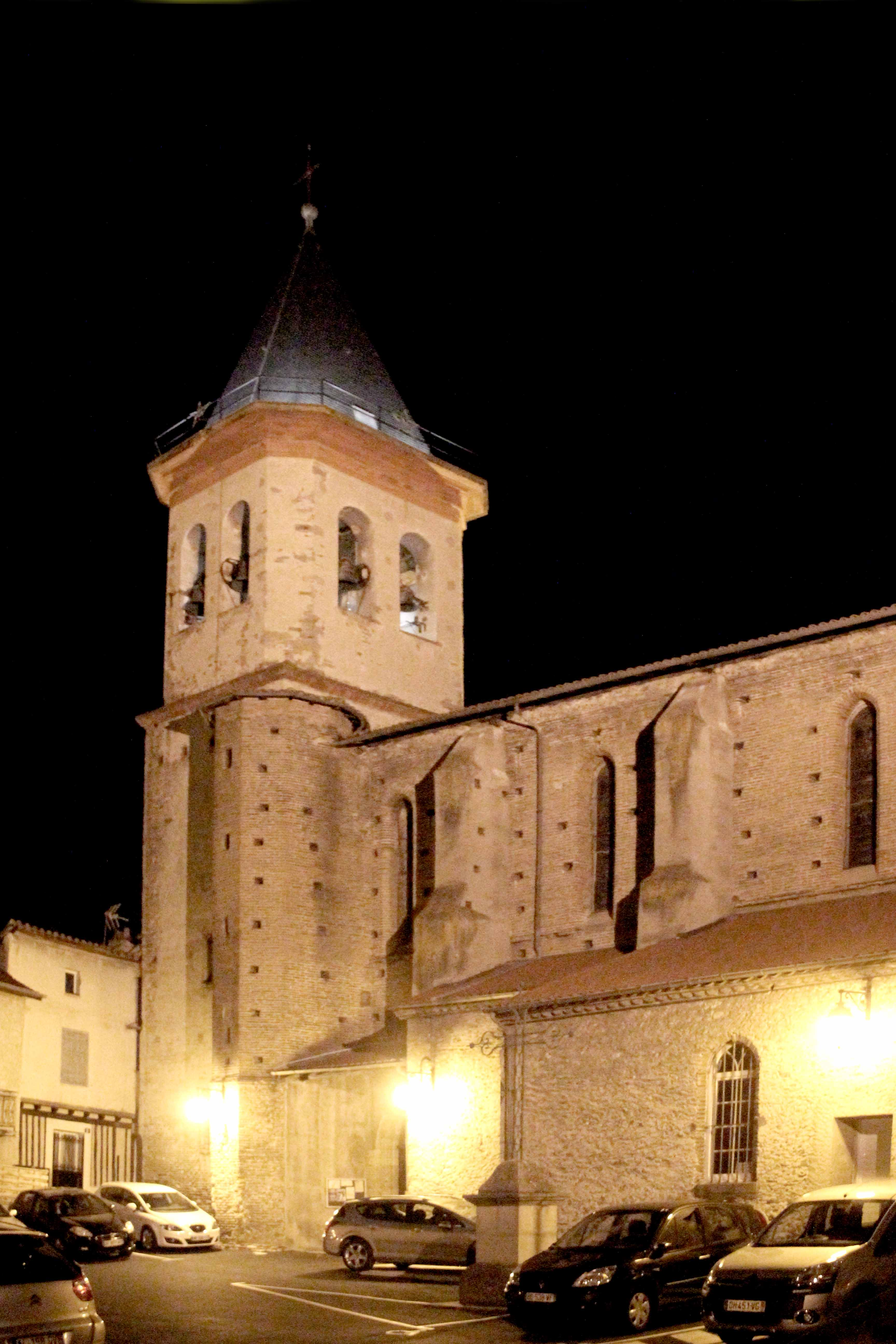 Eglise de Varilhes